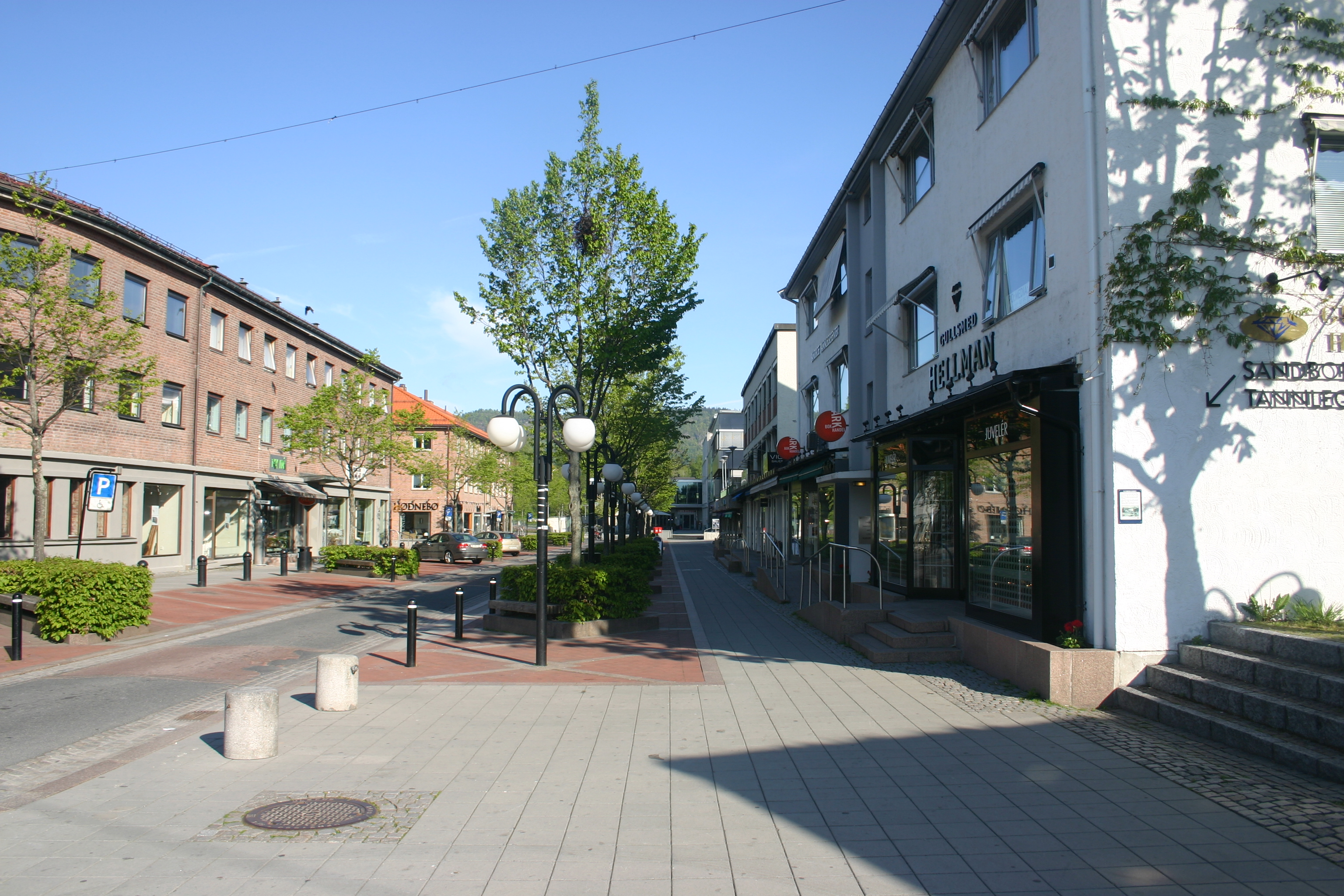 View of Strøget (the strait), one of the main streets in Asker City